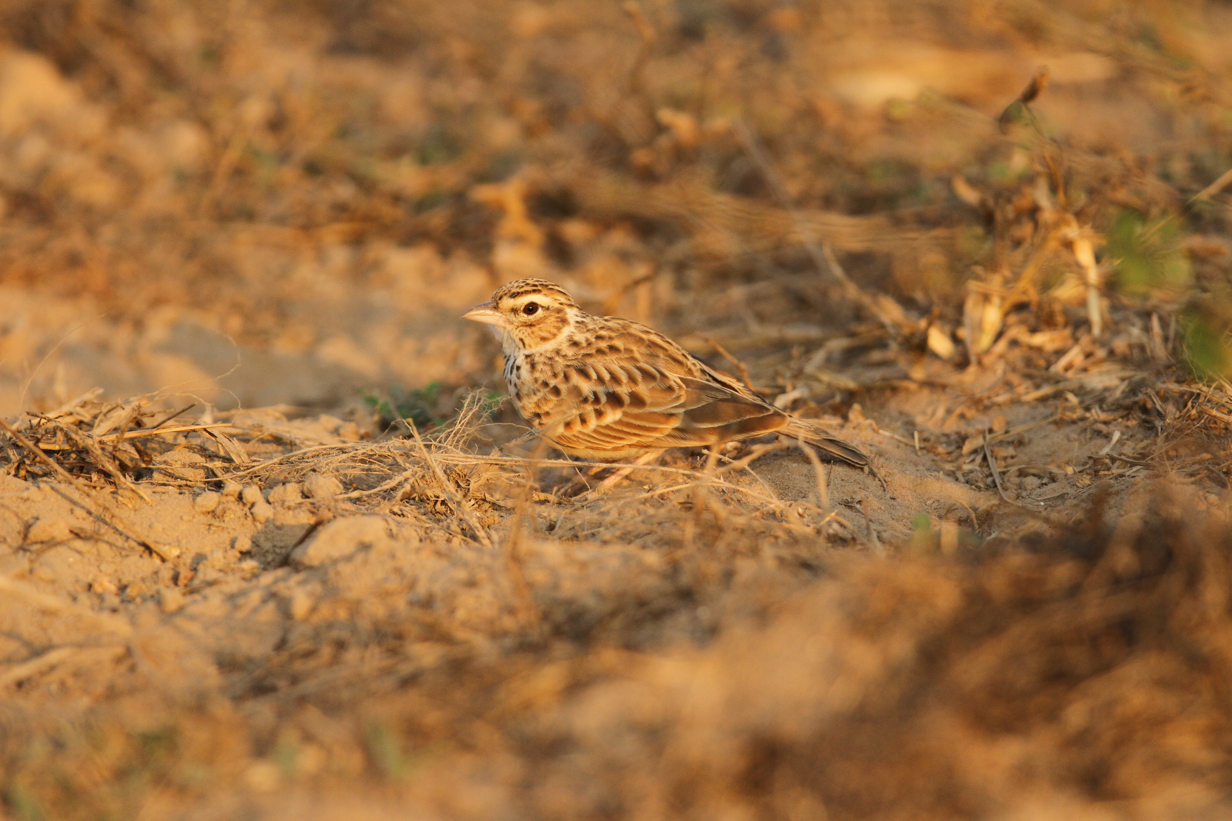 birds of India